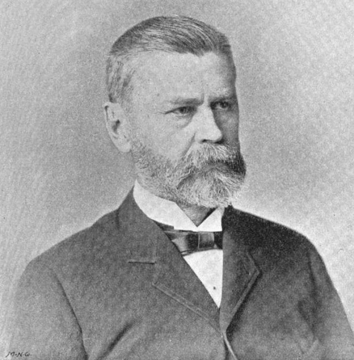 William D. Veeder, New York Congressman